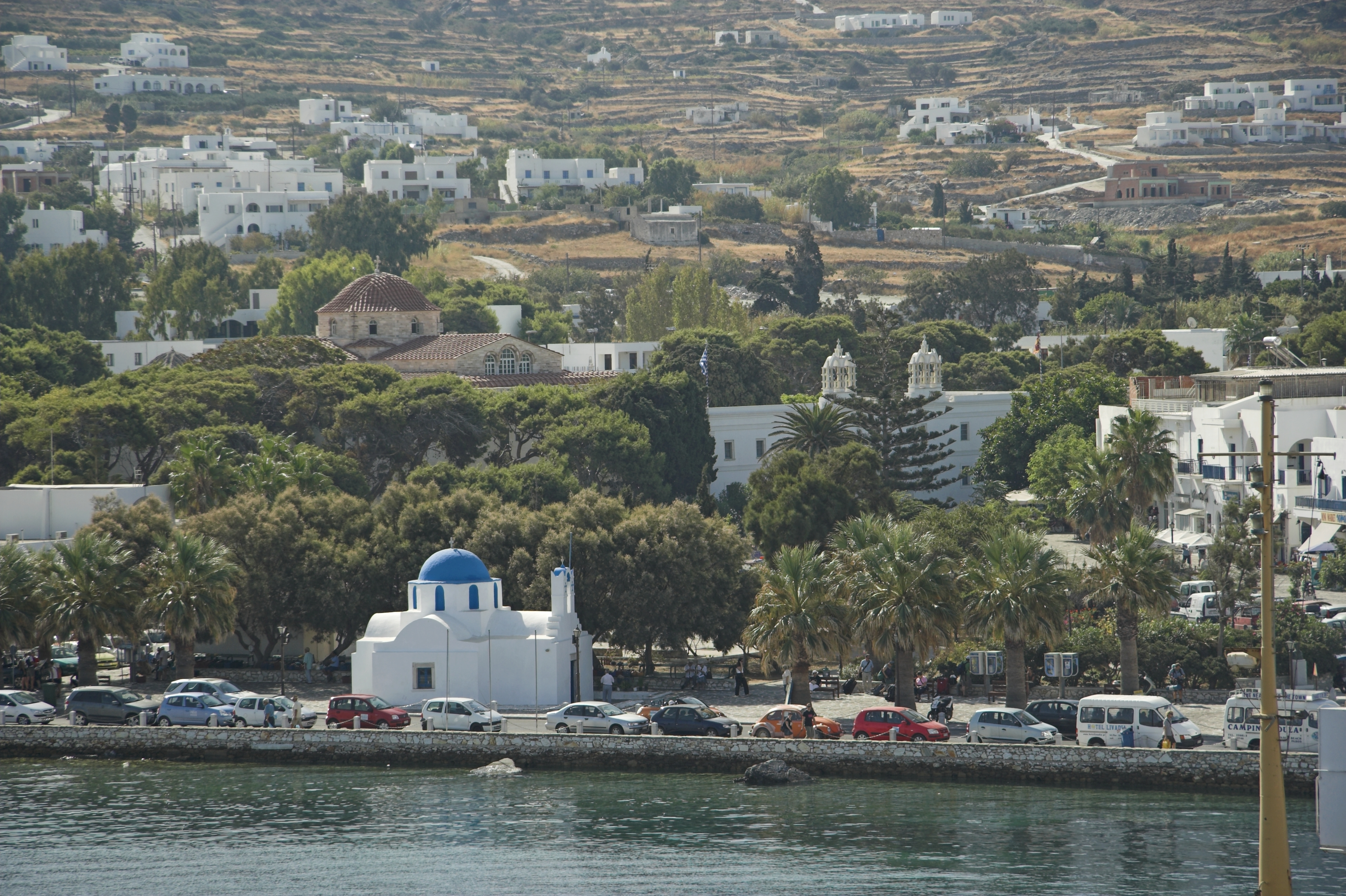 Parikia, Paros, Panagia Ekatontapyliani